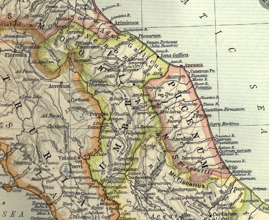 Umbria from Reference Map of Ancient Italy, Northern Part [1] Historical Atlas by William R. Shepherd, 1911. Courtesy of the University of Texas Libraries, The University of Texas at Austin. From The Historical Atlas by William R. Shepherd, 1911 edition